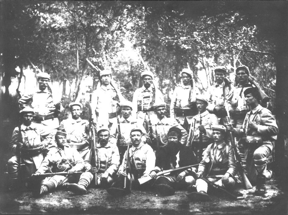 Cheta of IMARO voevoda Mitso Kirliev